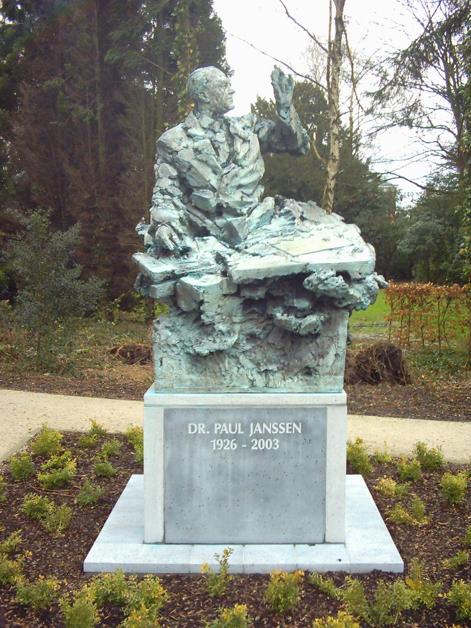 The statue of Dr. Paul Janssen made by Wilfried Pas in Beerse, Belgium. It is located near the centre of Beerse, Belgium, (Europe) in the Bisschopslaan.